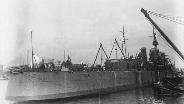 Imperial Japanese Navy destroyer Akishimo, Yugumo-class, under construction at Fujinagata Shipyard, Osaka, Japan.